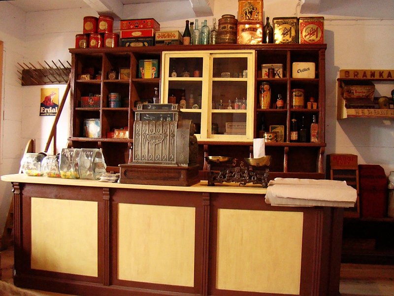 Colonial Store - interior.